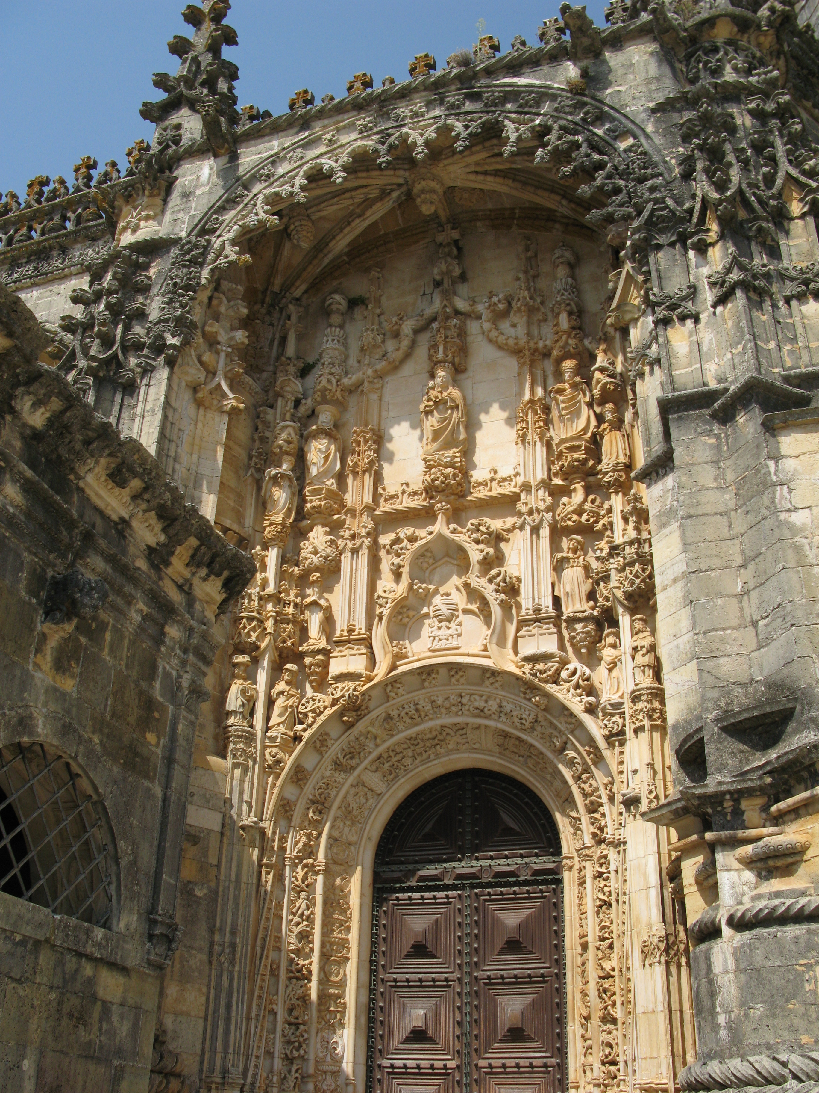 Manueline portal of Christ Convent, Tomar